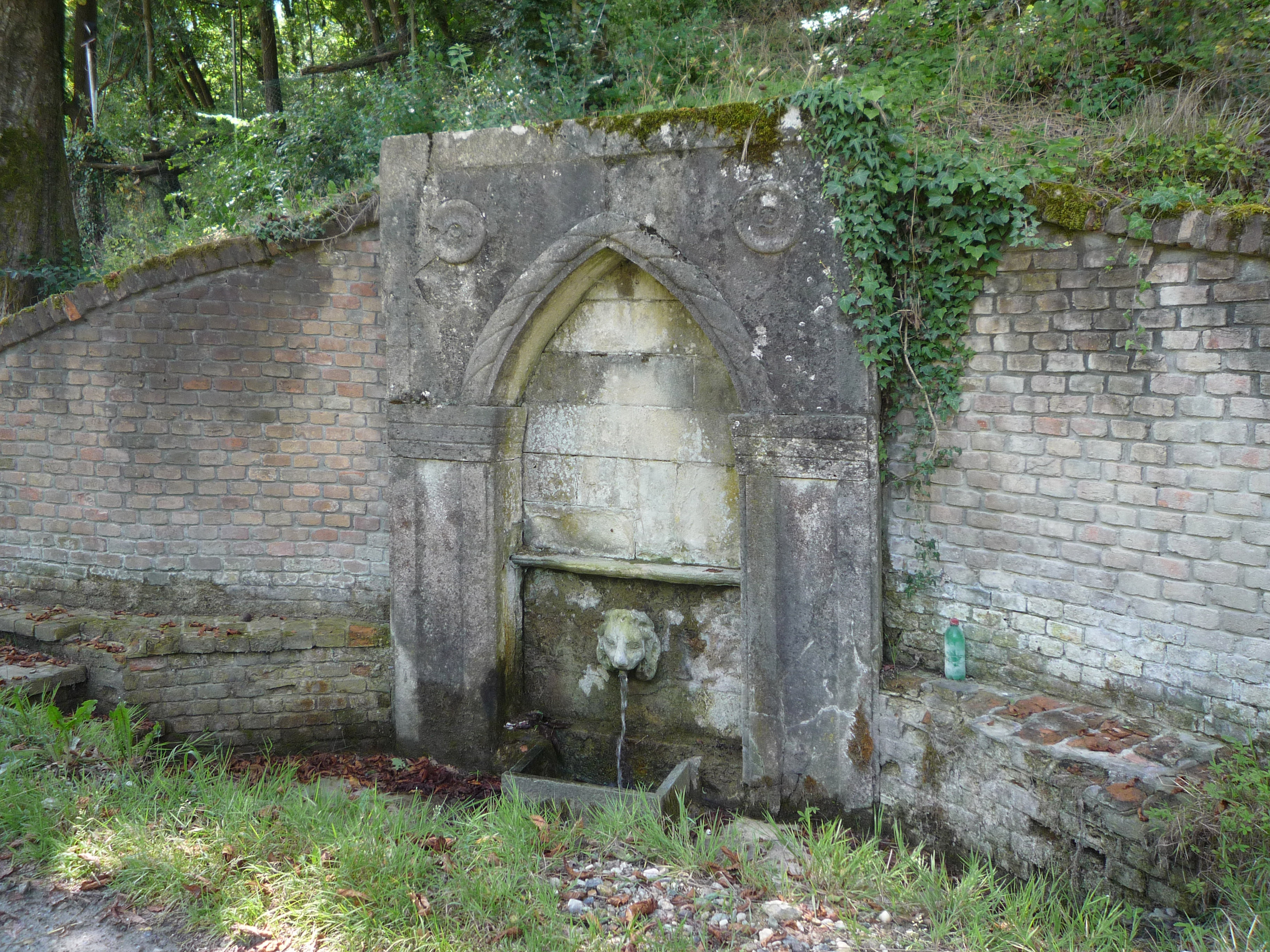 Sulfur water fountain called "La Pirenta", on the northern slopes of Montelungo, in the municipality of Murisengo (AL).